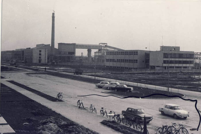 Glass factory in Buzău, RomaniaRomână: Întreprinderea de geamuri din Buzău, România